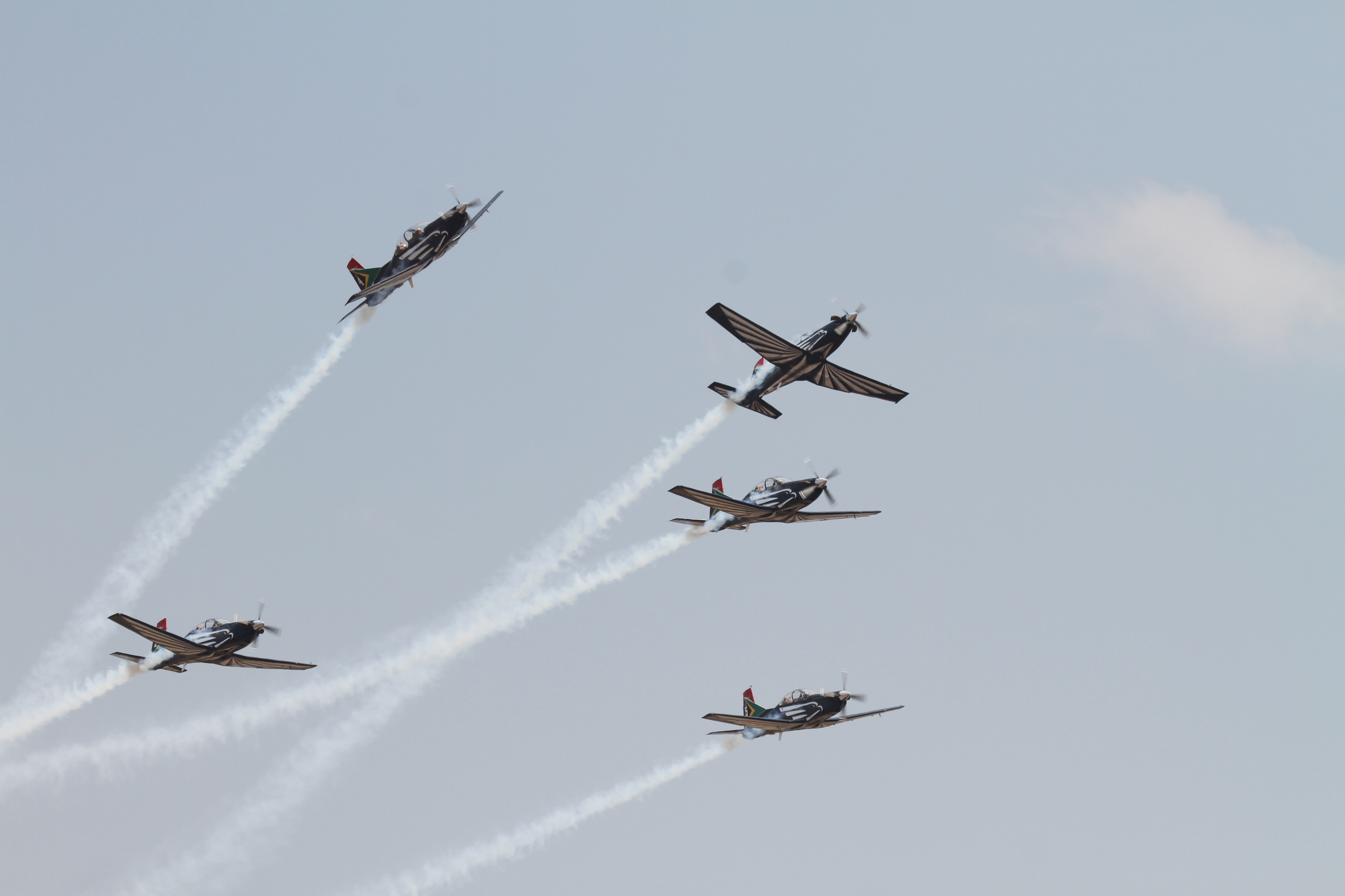 Silver Faclons display ad the African Aeronautical and Defence Air Show 2014